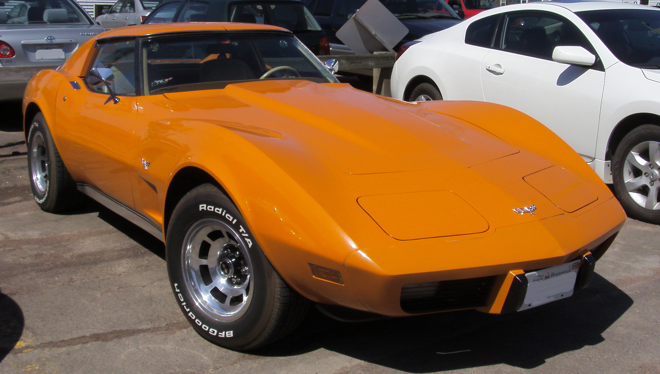 1977 Chevrolet Corvette Stingray photographed in Moncton, New Brunswick, Canada.